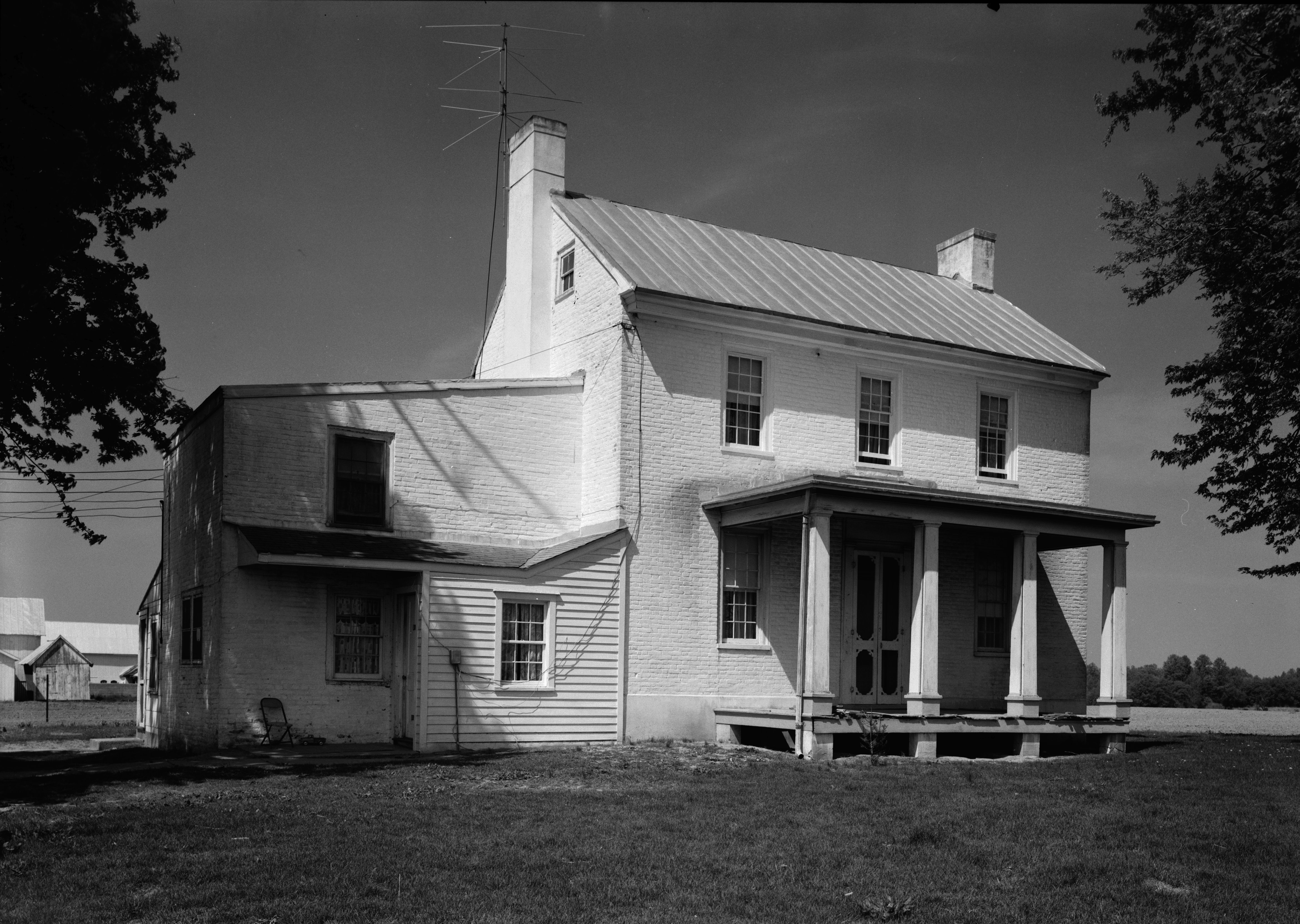 Historic American Buildings Survey Cortlandt Van Dyke Hubbard, Photographer June 1960 FRONT ELEVATION - Hoffecker House, State Route 6, Clayton, Kent County, DE